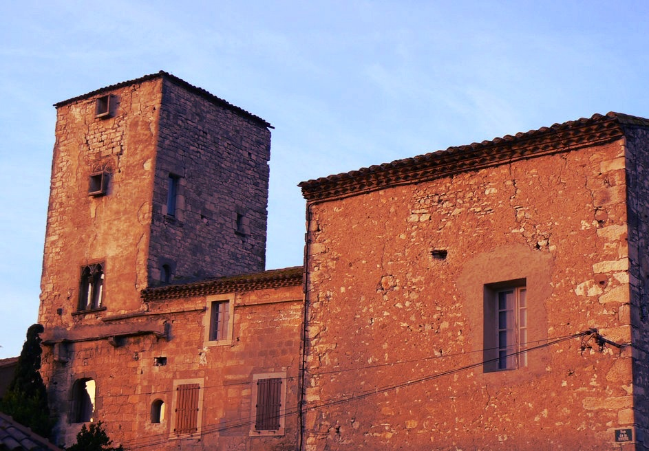 Photograph of the medieval castle set in the heart of the village of Ventenac-Cabardès